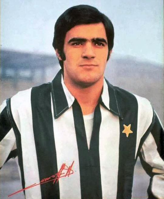 Italian footballer Antonello Cuccureddu with Juventus F.C. in the 1st half of the 1969–70 season, posing inside the Communal Stadium in Turin, Italy.